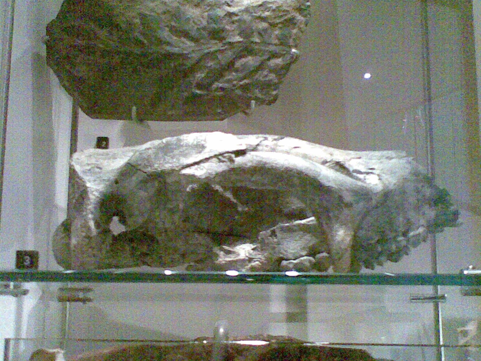 Neohelos stirtoni at the Victoria Museum.